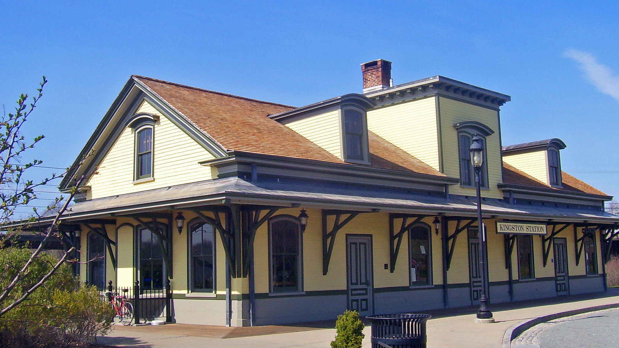 Train station in Kingston, RI, USA.